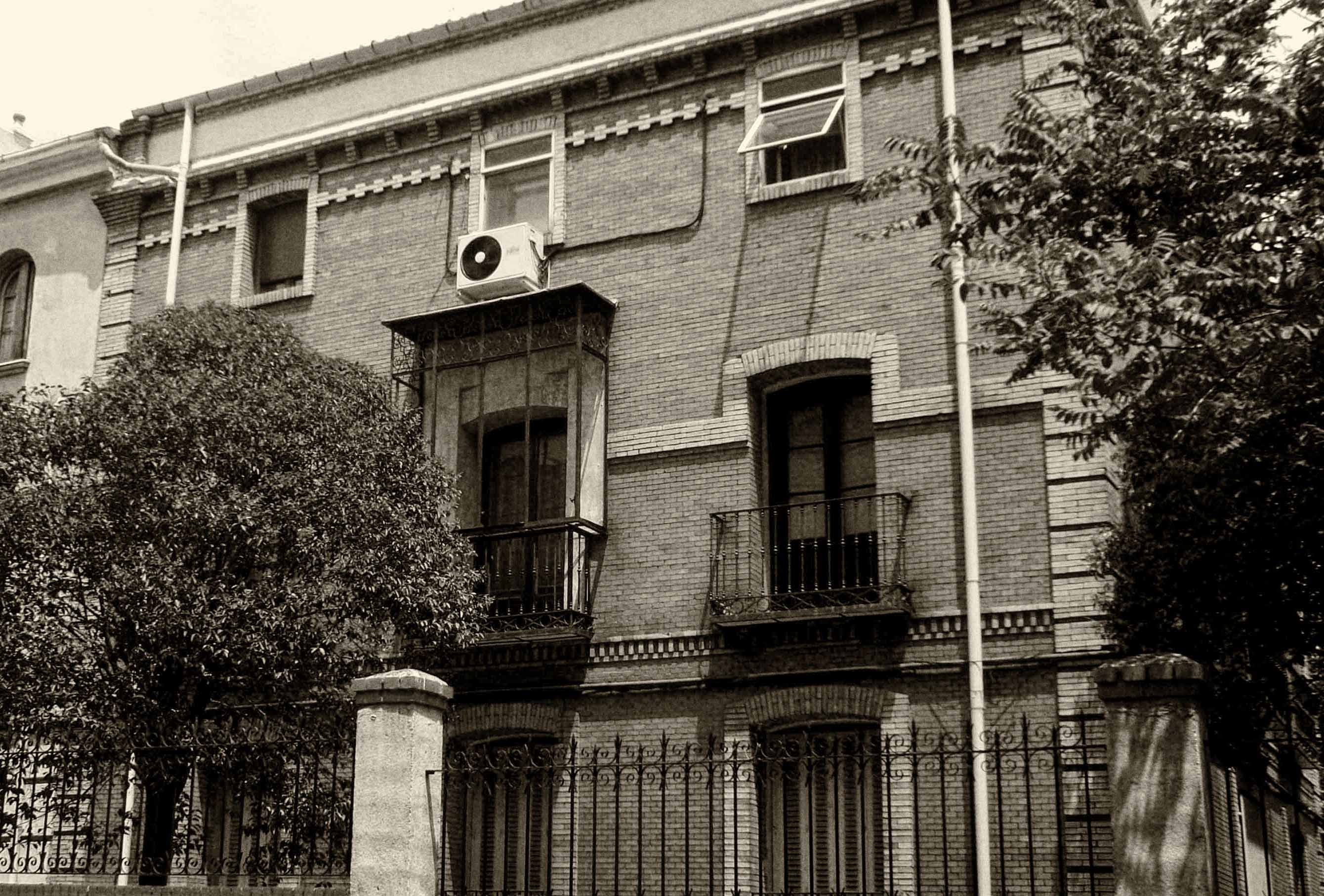 Villa Casilda (La Prosperidad, 1894), next to the axis of Lopez de Hoyos street and Prosperidad Square.